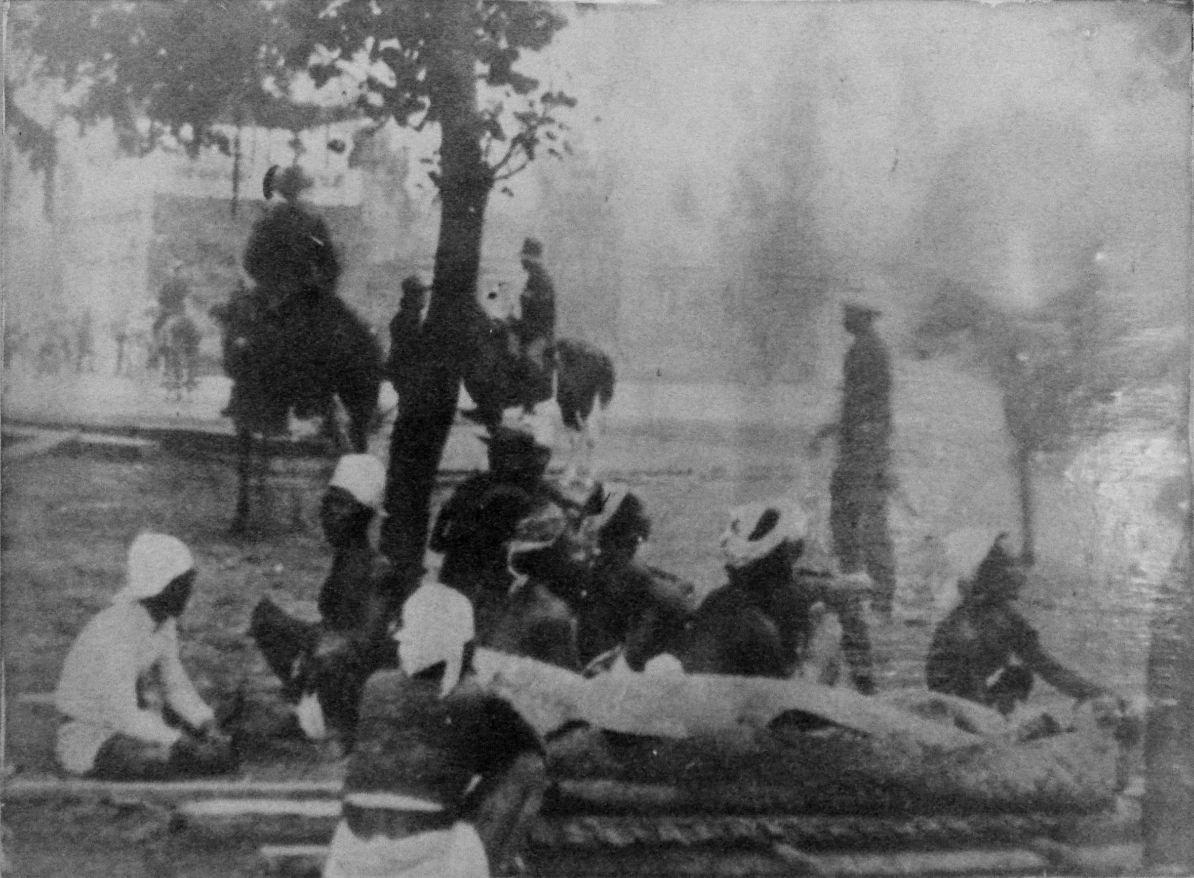 Body_of_the_Raja_Denpasar_1906